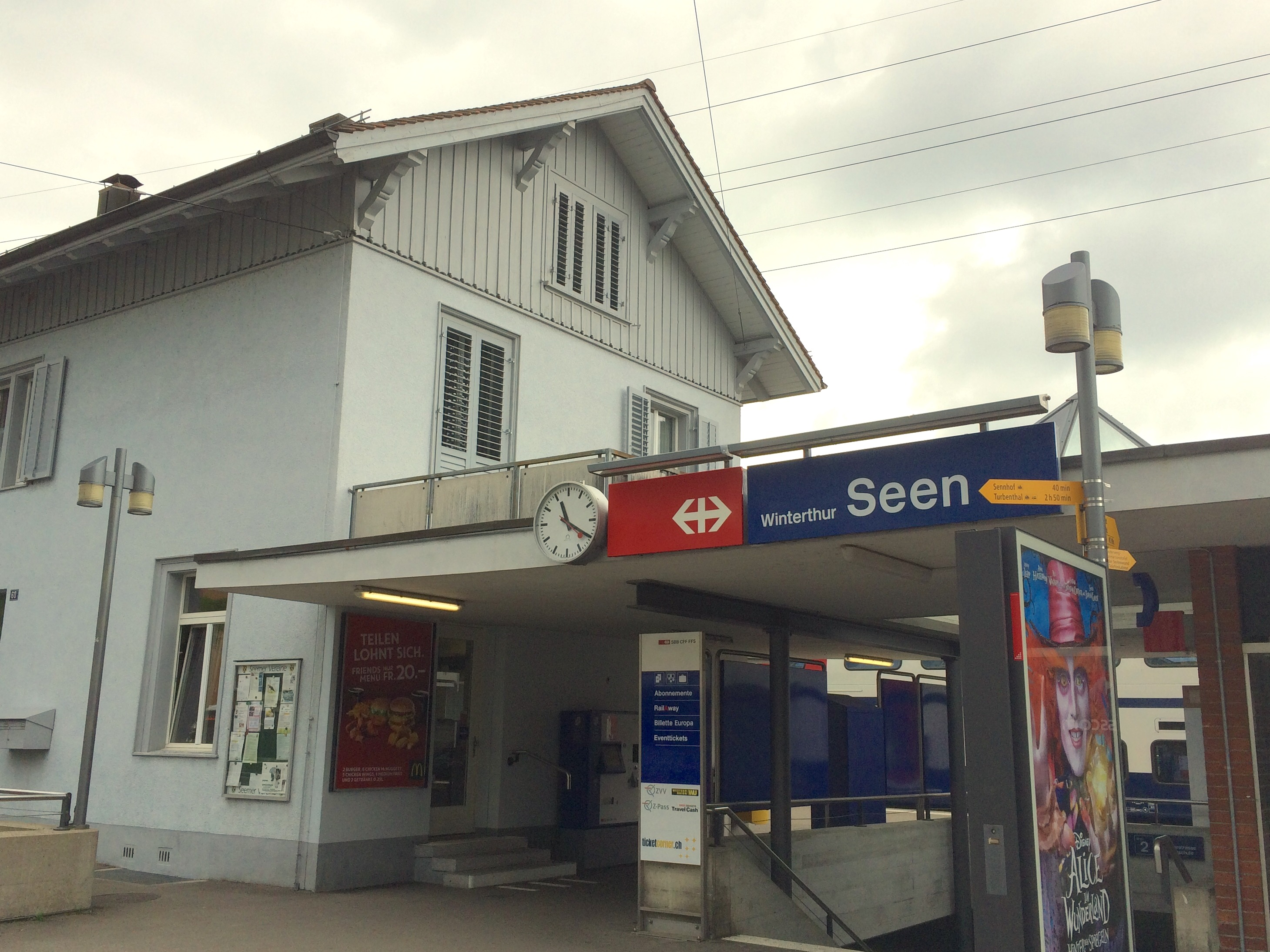 Trainstation Winterthur-Seen from the front